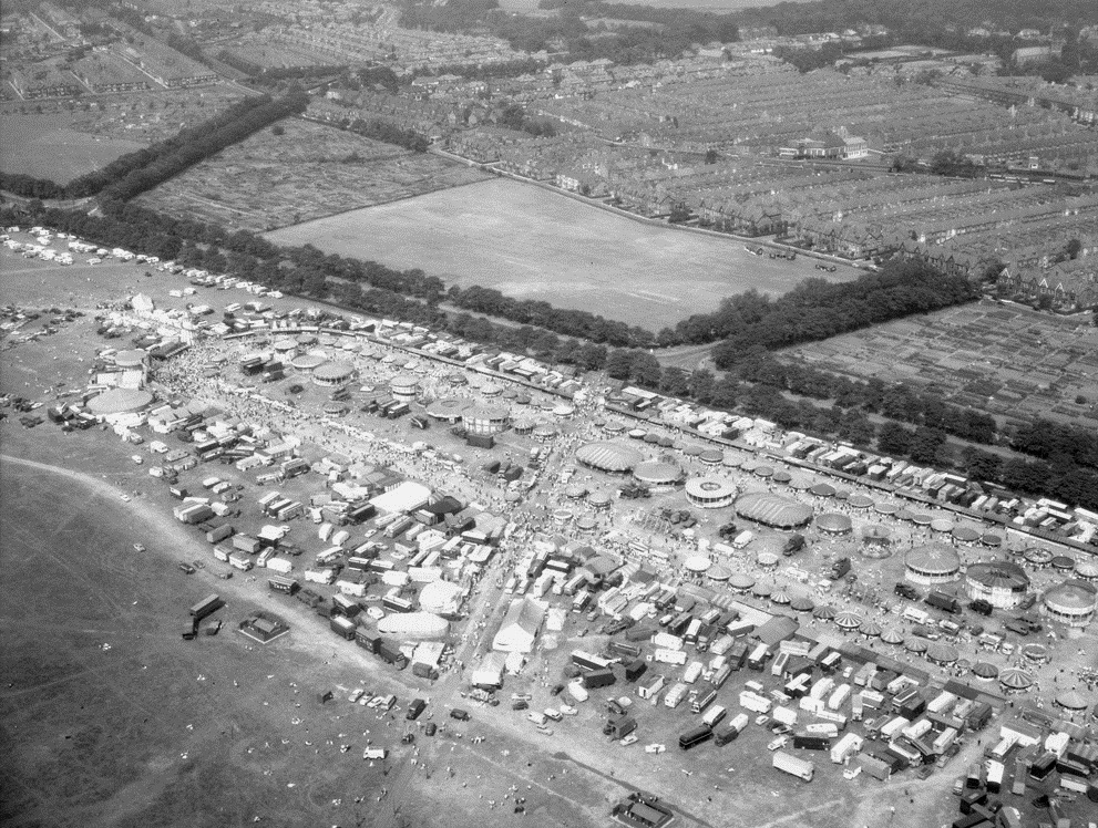 Aerial view of The Hoppings, held on the Town Moor, Newcastle upon Tyne, June 1960 (TWAM ref. DT.TUR/2/24607E). (Copyright) We're happy for you to share this digital image within the spirit of The Commons. Please cite 'Tyne & Wear Archives & Museums' when reusing. Certain restrictions on high quality reproductions and commercial use of the original physical version apply though; if you're unsure please . To purchase a hi-res copy please quoting the title and reference number.